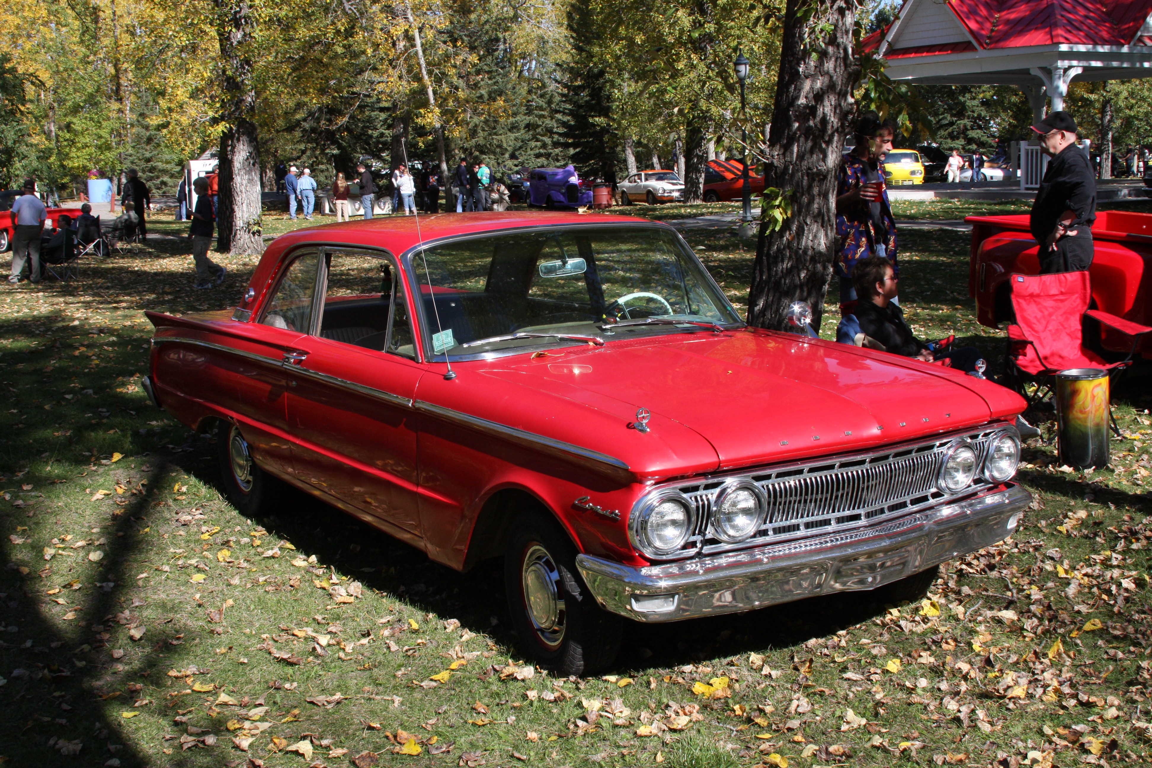 1962 Mercury Comet 2-door sedan